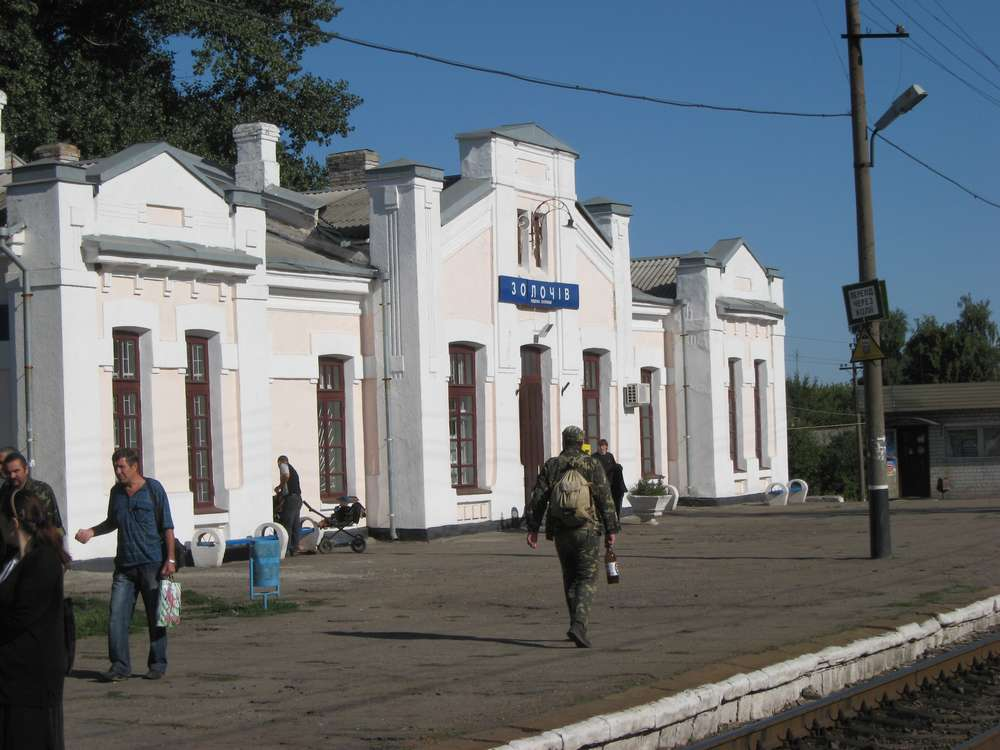 Zolochiv railway station in Zolochiv, Kharkiv Oblast, Ukraine Ж.д. вокзал города Золочева Харьковской обл.